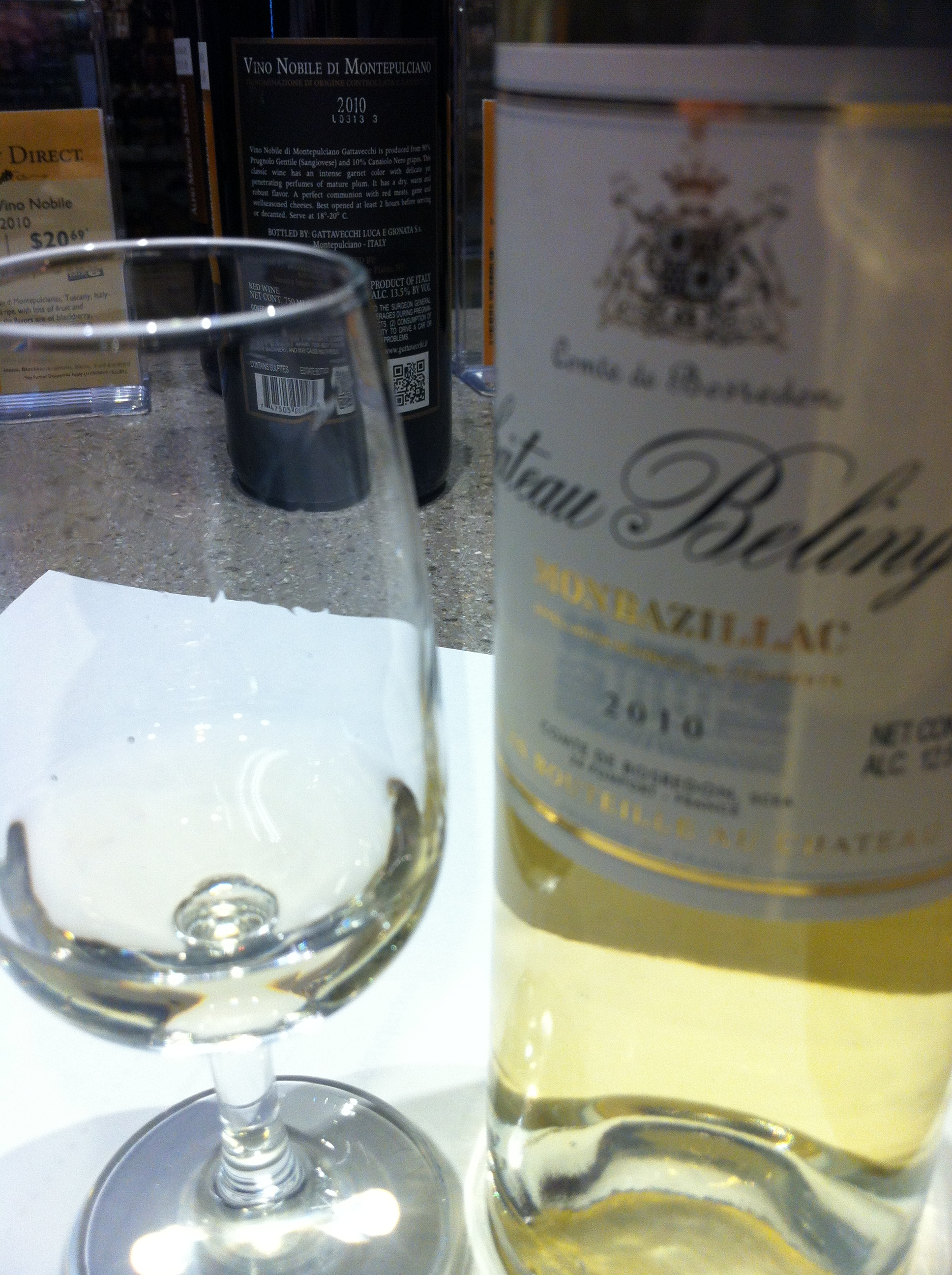 French dessert wine from the the southwest France region of Monbazillac.